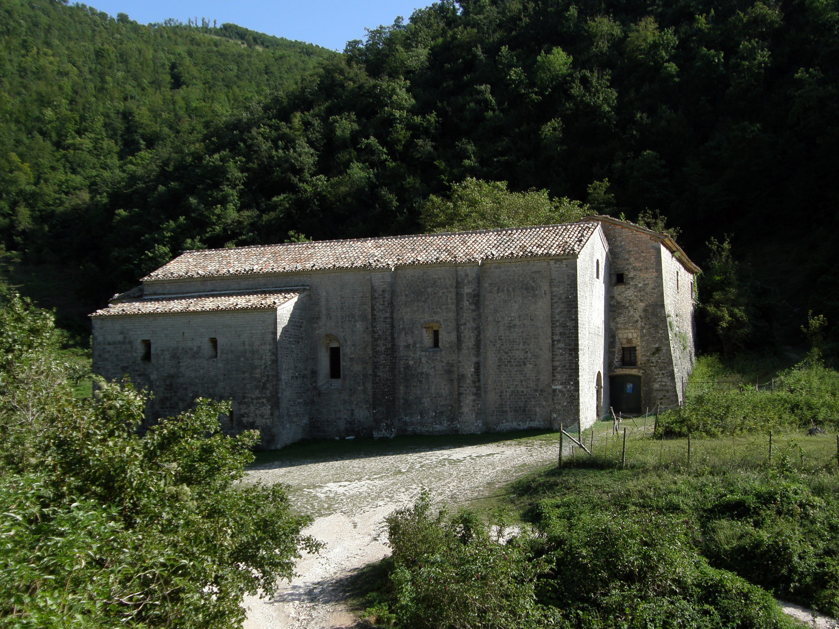 Scheggia, Italy - Monte Cucco, Abbazia di Santa Maria di Sitria